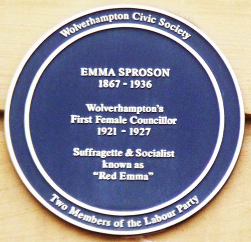 Commemorative Plaque for Emma Sproson Wolverhampton